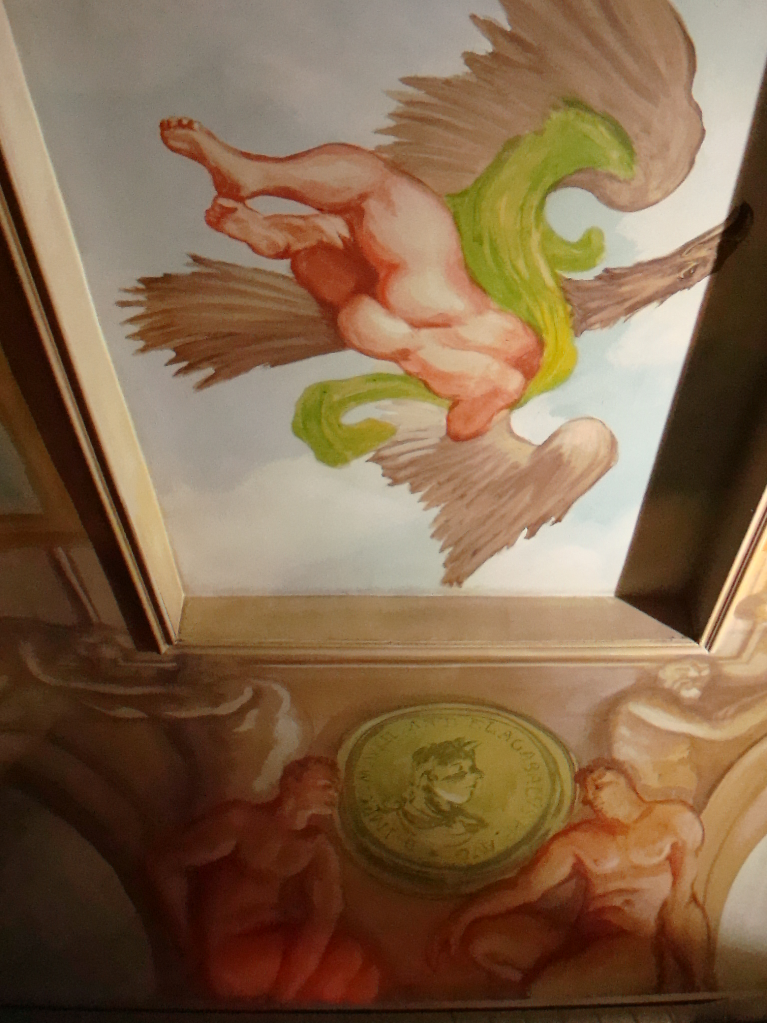 Centralbad Vienna 13